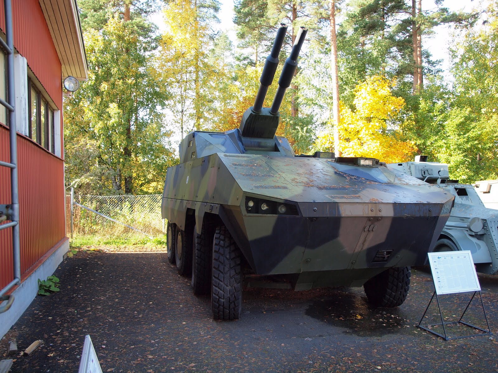 Mock-up of AMOS on Patria AMV.